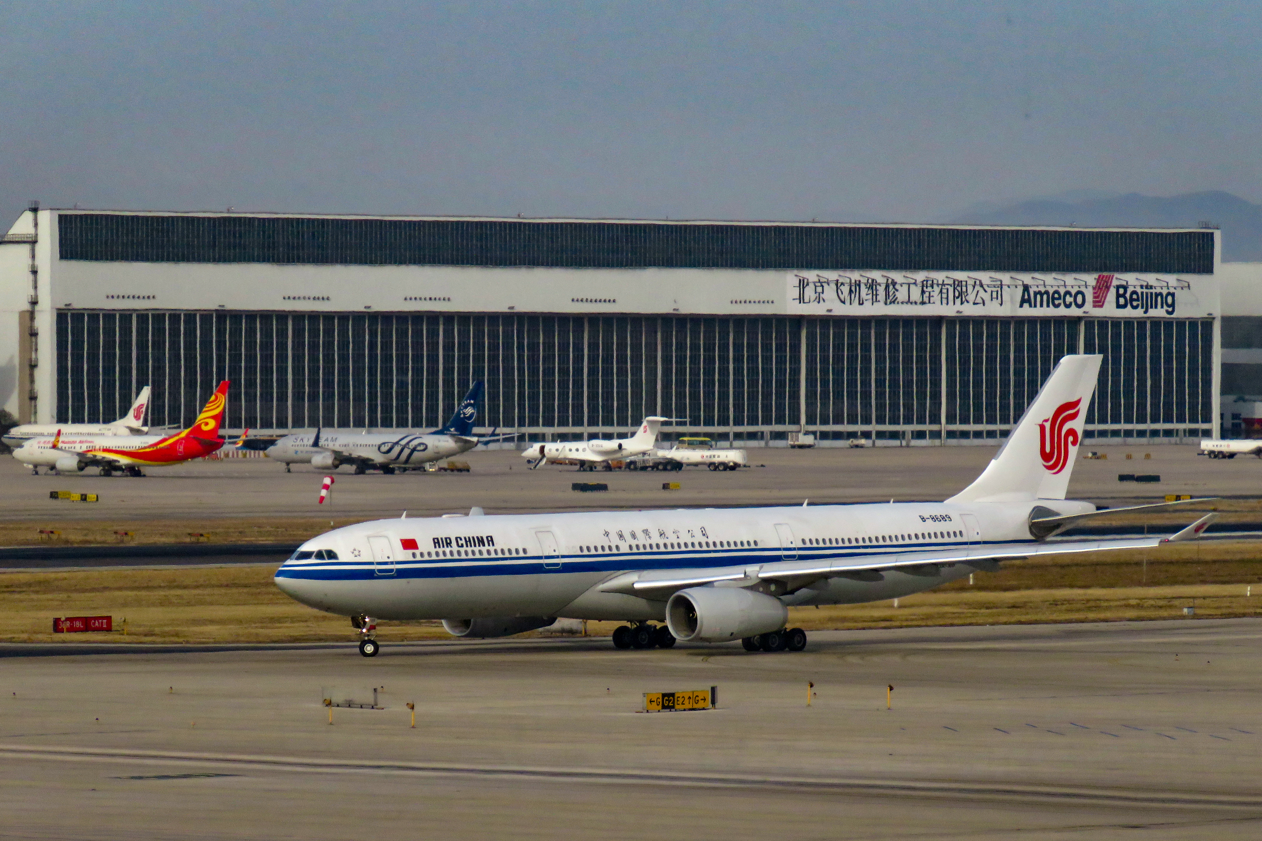 The hangar itself is built in 1996.